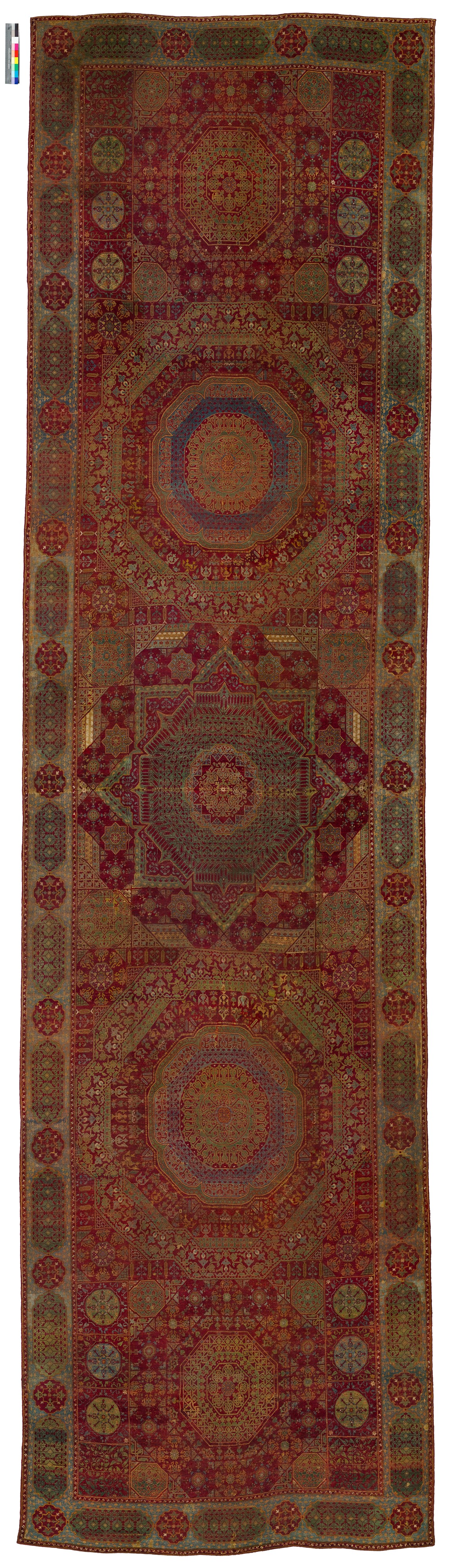 Carpet; Textiles-Rugs